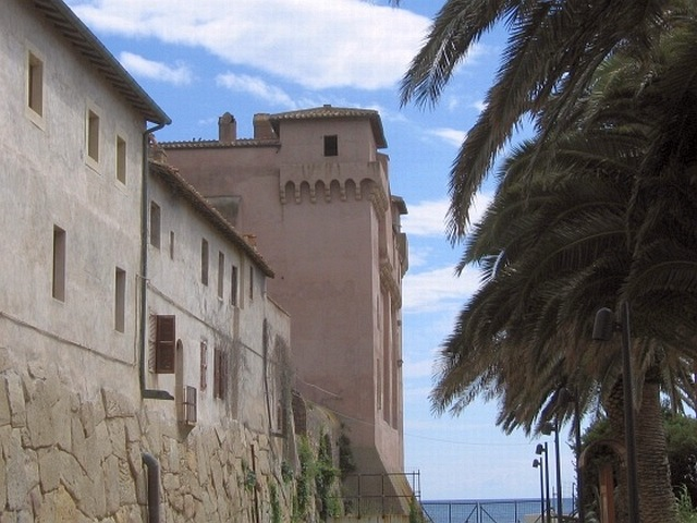 Along the walls of the castle